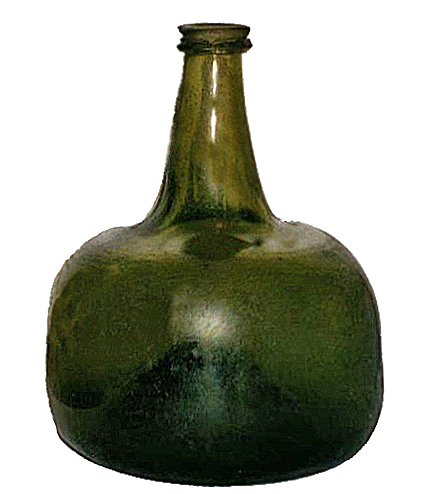 Olive-coloured wine bottle from about 1740s